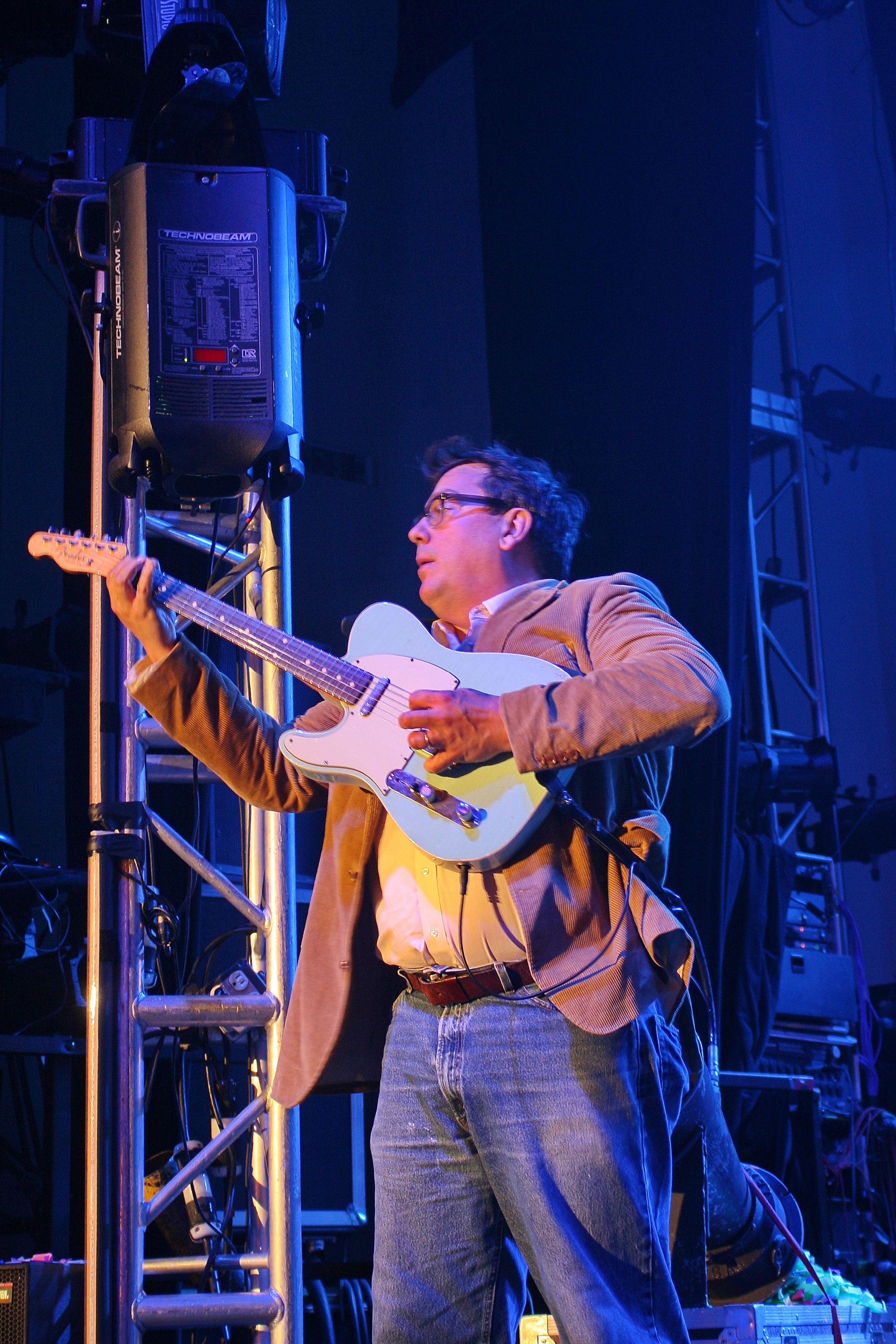 They Might Be Giants